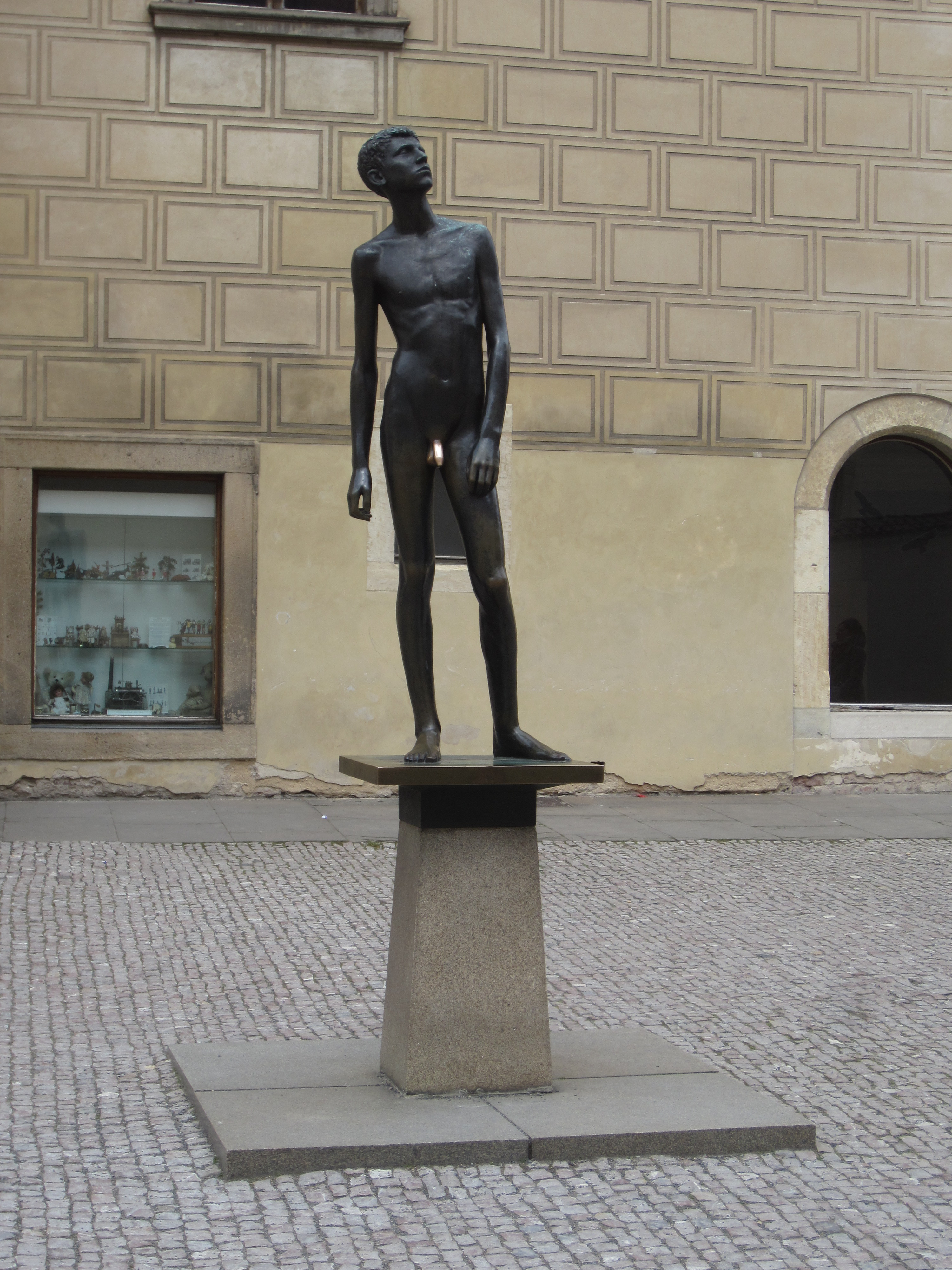 Prague, Czech Republic, April 2016